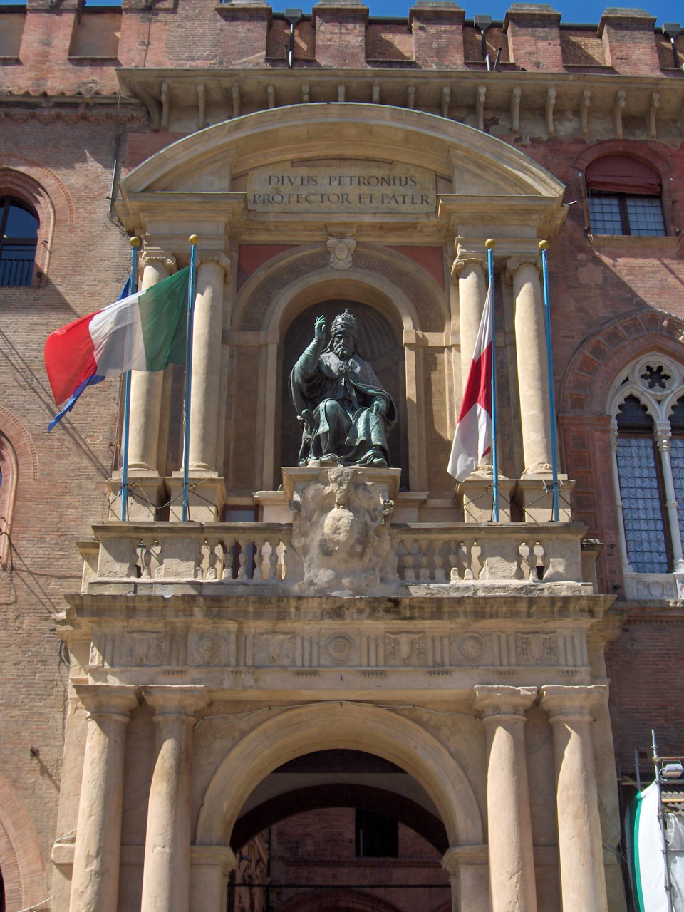 Gregorius XIII, bronze statue of the Bolognese pope by Alessandro Menganti (1576-1580); Palazzo d'Accursio, Bologna, Italy